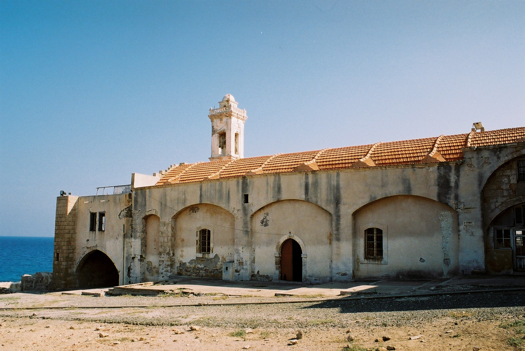 Apostolos Andreas Monastery, Cyprus